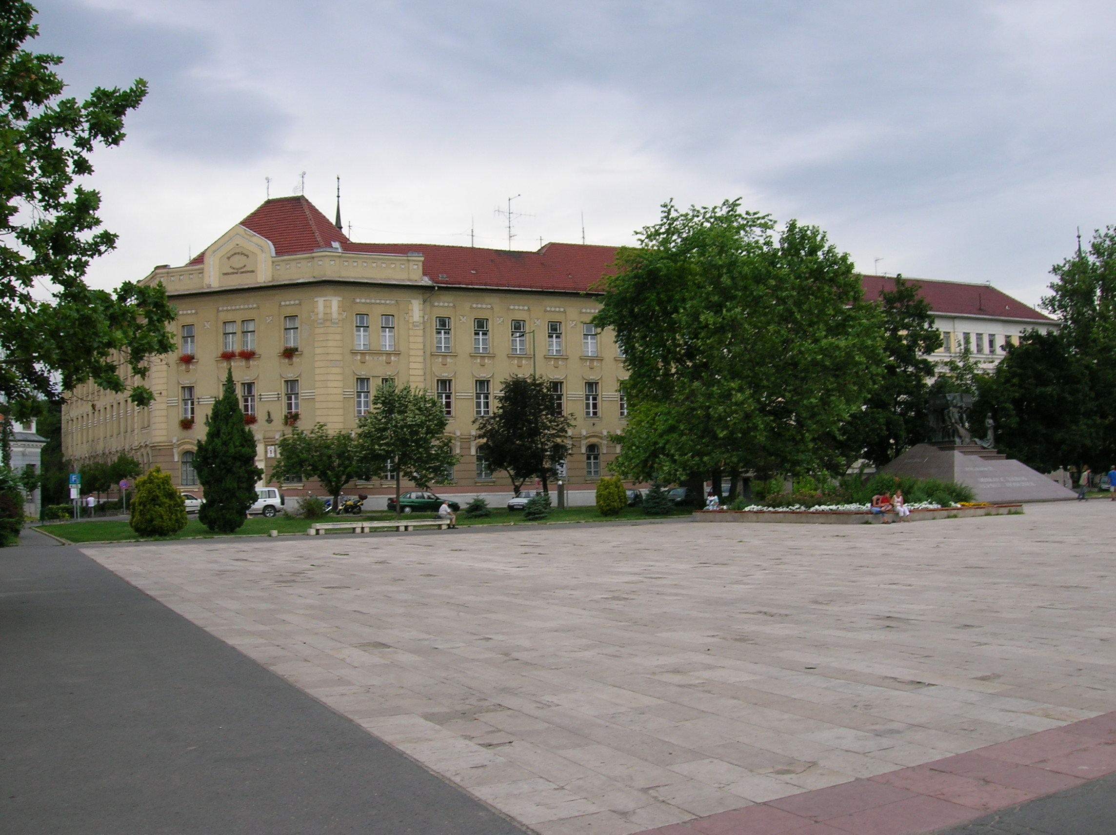 Heroes' Square, Miskolc, Hungary; with Berzeviczy High School.